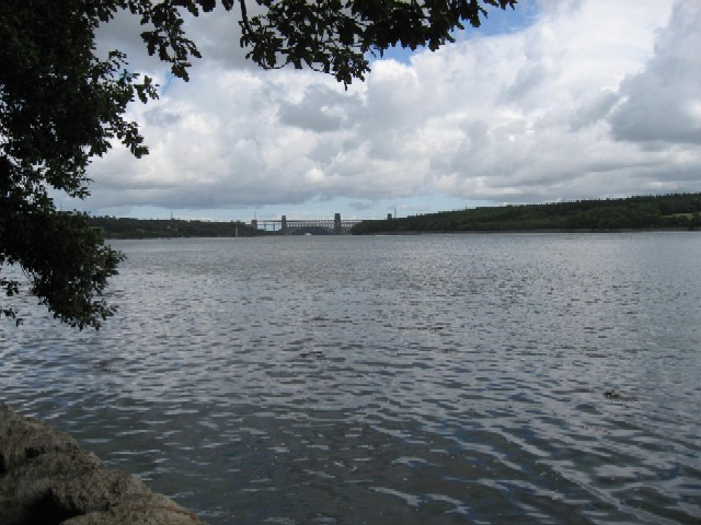 Mainland Connections. Pont Britannia over the Menai Strait as seen from the end of the marine walk at Plas Newydd.